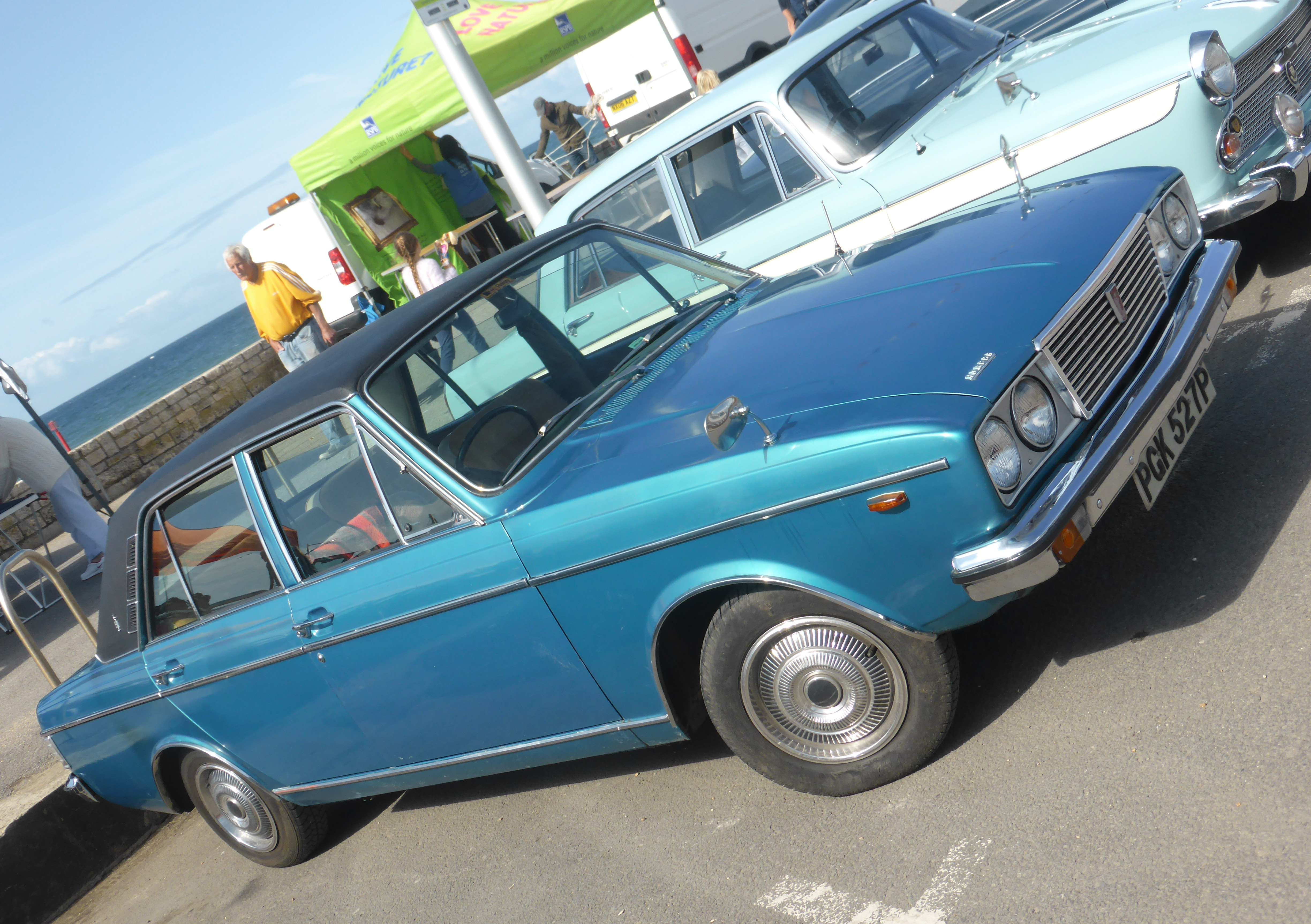 Yeovil Car Club line-up at West Bay Day